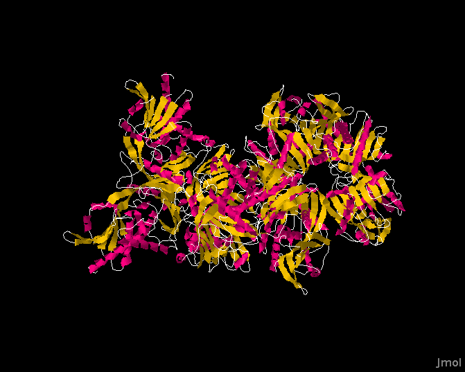 D-amino acid oxidase 3D structure. Made with Jmol using data from RCSB PDB.